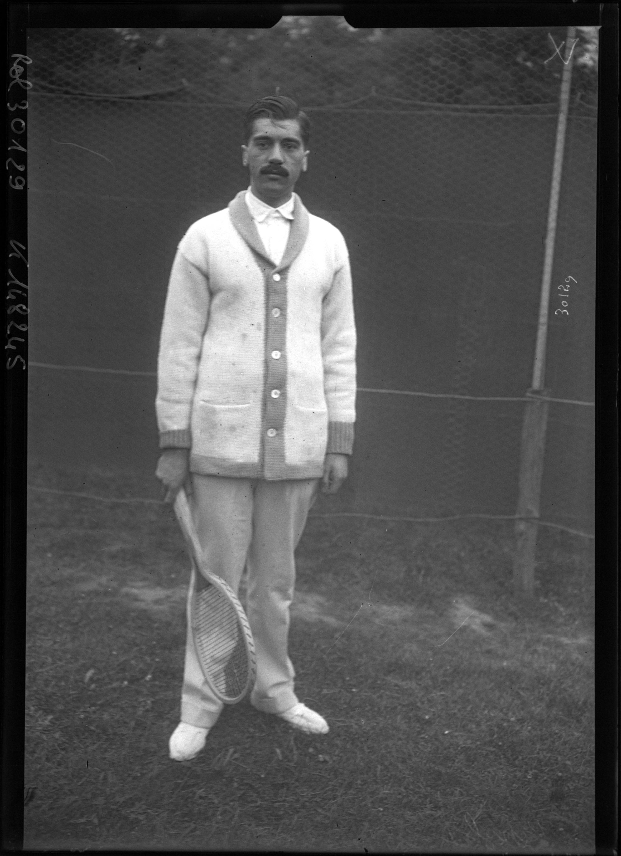 Kinzl [portrait du joueur de tennis à l'occasion des championnats du monde de tennis sur terre battue]